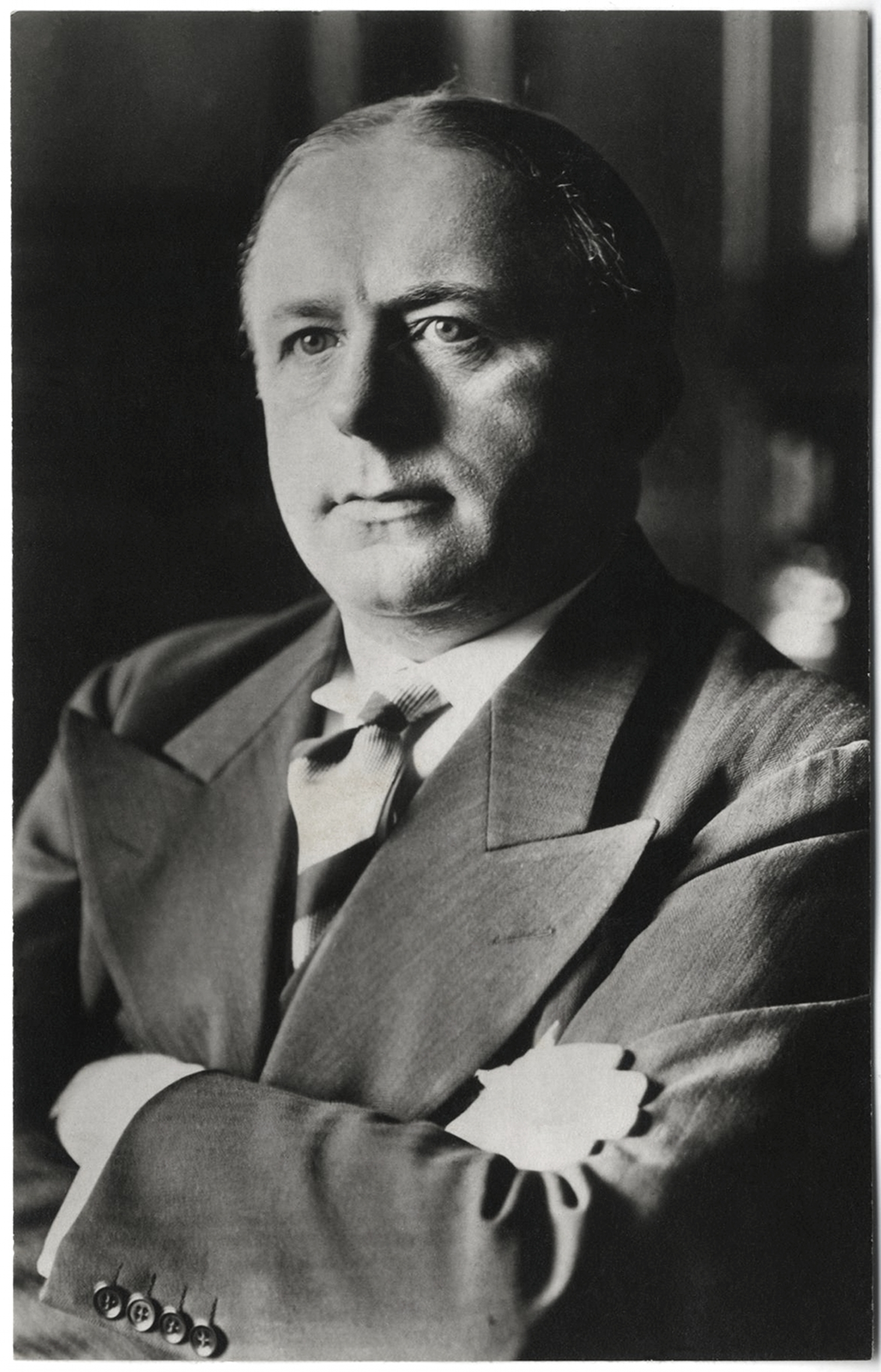 Roger Salengro (1890 - 1936), french politician, mayor of Lille, and minister of interior in the first government of the Popular Front